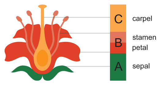 A diagram illustrating the ABC model. Class A genes affect sepals and petals, class B genes affect petals and stamens, class C genes affect stamens and carpels. In two specific whorls of the floral meristem, each class of organ identity genes is switched on.